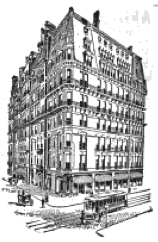 Fronting Fifth Avenue, Broadway and 27th Street, New York. George W. Sweeney, proprietor